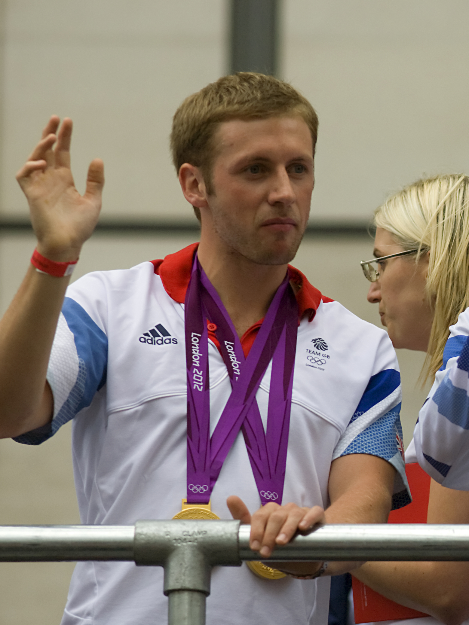 London 2012 Olympic & Paralympic Games Victory Parade, 10th September